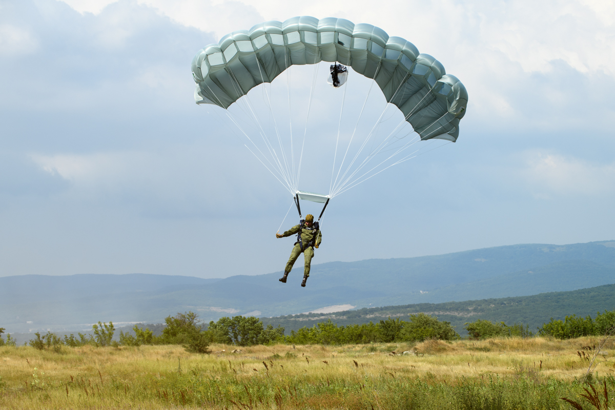 Russian Airborne Troops. Slavic Brotherhood 2018 exercise.